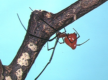 female Argyrodes miniaceus from Okinawa.